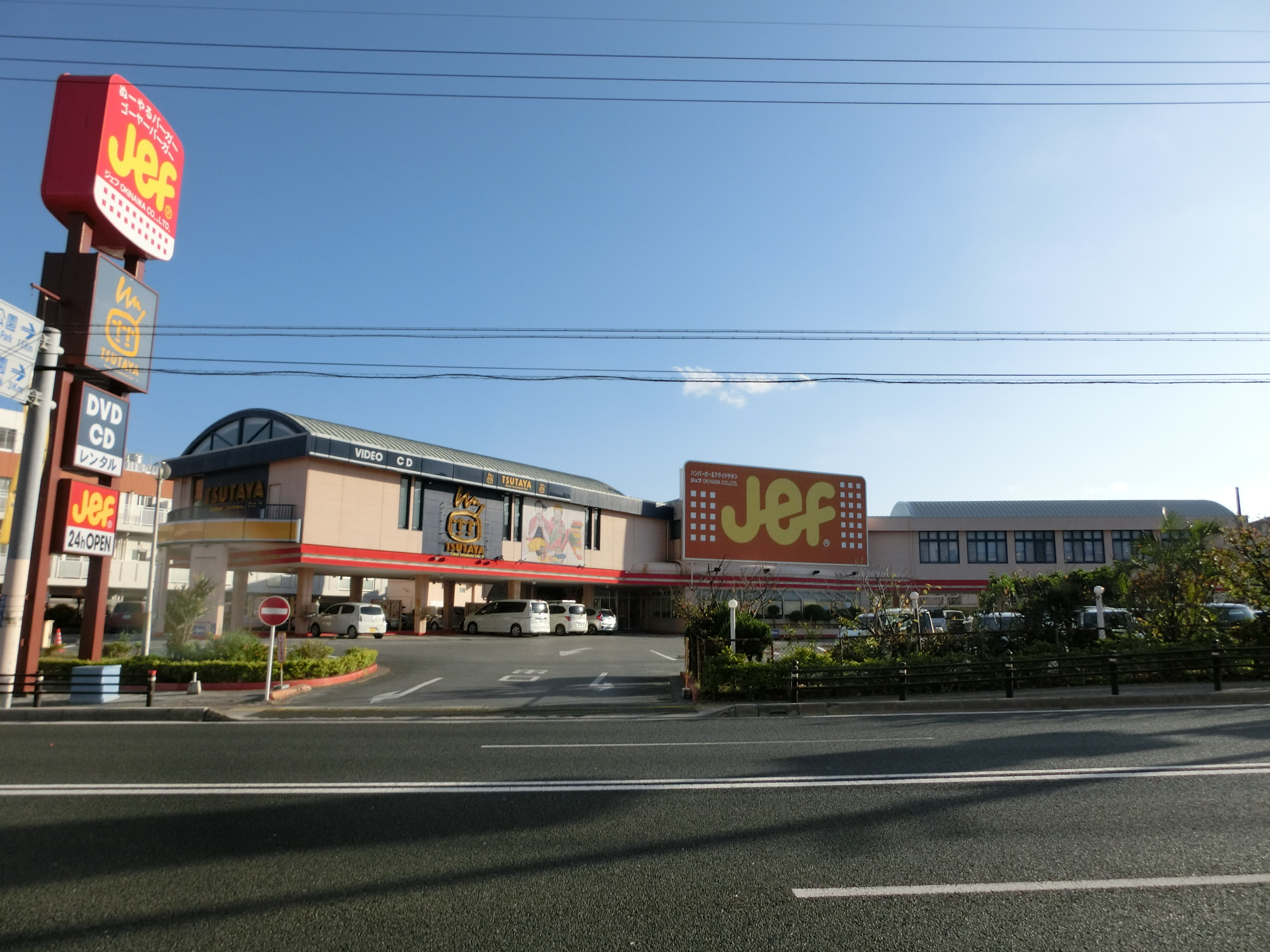 Jef Yonabaru